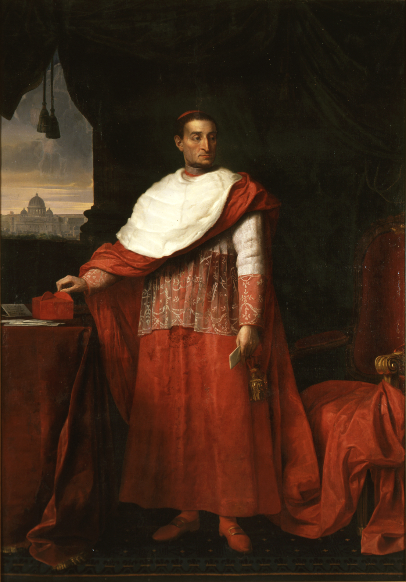 Retrato del cardenal español Francisco Antonio Javier de Gardoqui y Arriquíbar (1747-1820), que antes de llegar al cardenalato fue vicario general de Palencia, fiscal de la Inquisicion en Granada y en Valladolid y arcediano de Sagunto y Alarcón. Además, su pericia en asuntos fiscales y sus dotes oratorias le valieron el nombramiento en 1789, de auditor del tribunal de la Sagrada Rota por el reino de Castilla.